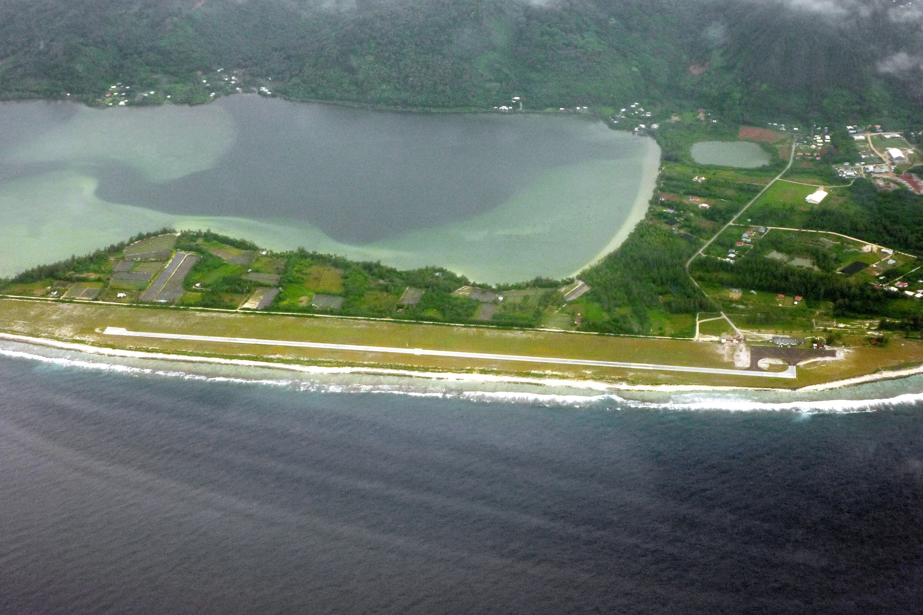 Aerial view of Huahine Airport, French Polynesia